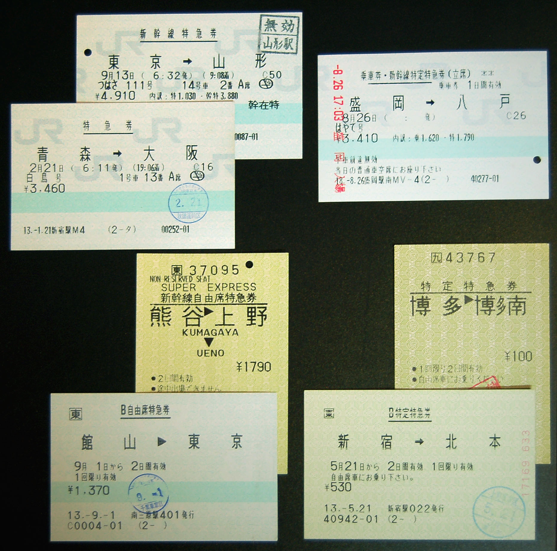 JR Limited express tickets. Left: Normal Limited-express tickets with seat reservation(up) and non seat reservation tickets(down). Right: Specified Limited tickets; up one is standing ticket. JRの特急券。左上：座席の指定された通常の特急券。左下：座席を指定しない自由席特急券。右上：全車指定席の列車を自由席利用する際の立席特急券(特定特急券区間)。右下：あらかじめ別に定められた特定区間に発行される特定特急券。